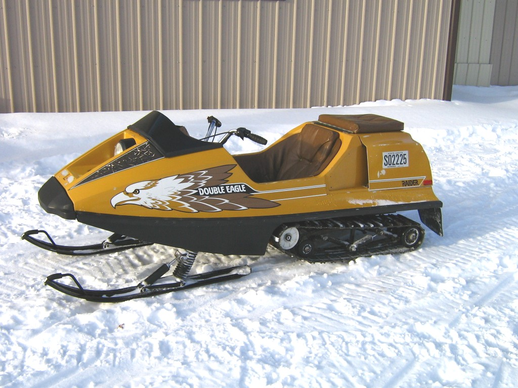 1974 Raider Double Eagle